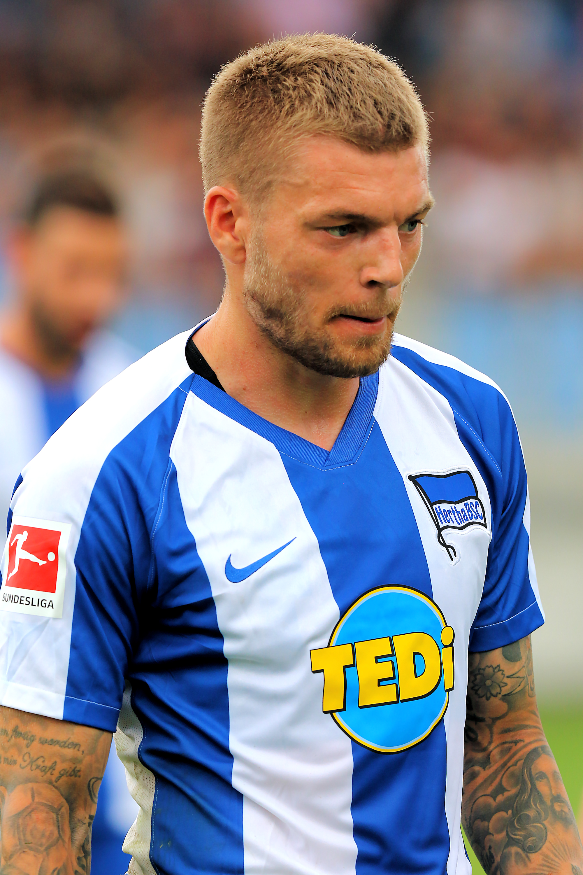 Friendly match Hertha BSC (blue-white shirts) vs. West Ham United (red-blue shirts) at 31-07-2019 3-5 (3-2) in the Sonnenseestadium in Ritzing. – The photo shows Alexander Esswein (Hertha BSC).